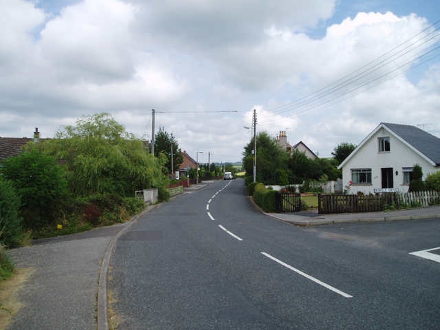 Collin, Dumfriesshire. A small commuter village just of the A75 between Annan and Dumfries. The view here is of the north end of the village where there are a lot of new houses being built the older part of the village lies towards the south.